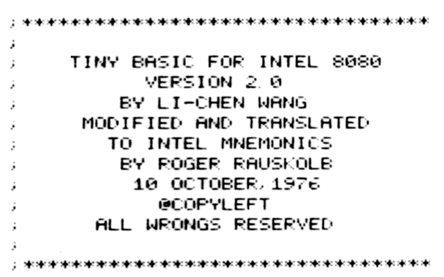 This is the first 9 lines of the source listing of Dr. Li-Chen Wang's Palo Alto Tiny BASIC modified by Roger Rauskolb and published in the December 1976 issue of Interface Age magazine. The complete listing is over 1500 lines of 8080 assembly language. Dr. Wang's BASIC had 26 variables [A -Z] and a new feature, a single array denoted by @[I]. In addition, the font is so low in resolution that the @ glyph resembles a white C in a black circle. This was an open source project and anyone was free to use or modify the source code. Note the Copyleft statement. This is a scan of a copy of the code personally given to me by the author in early 1977. [1] Michael Holley -- SWTPC6800 This is public domain because it was published as open source without copyright in 1976.